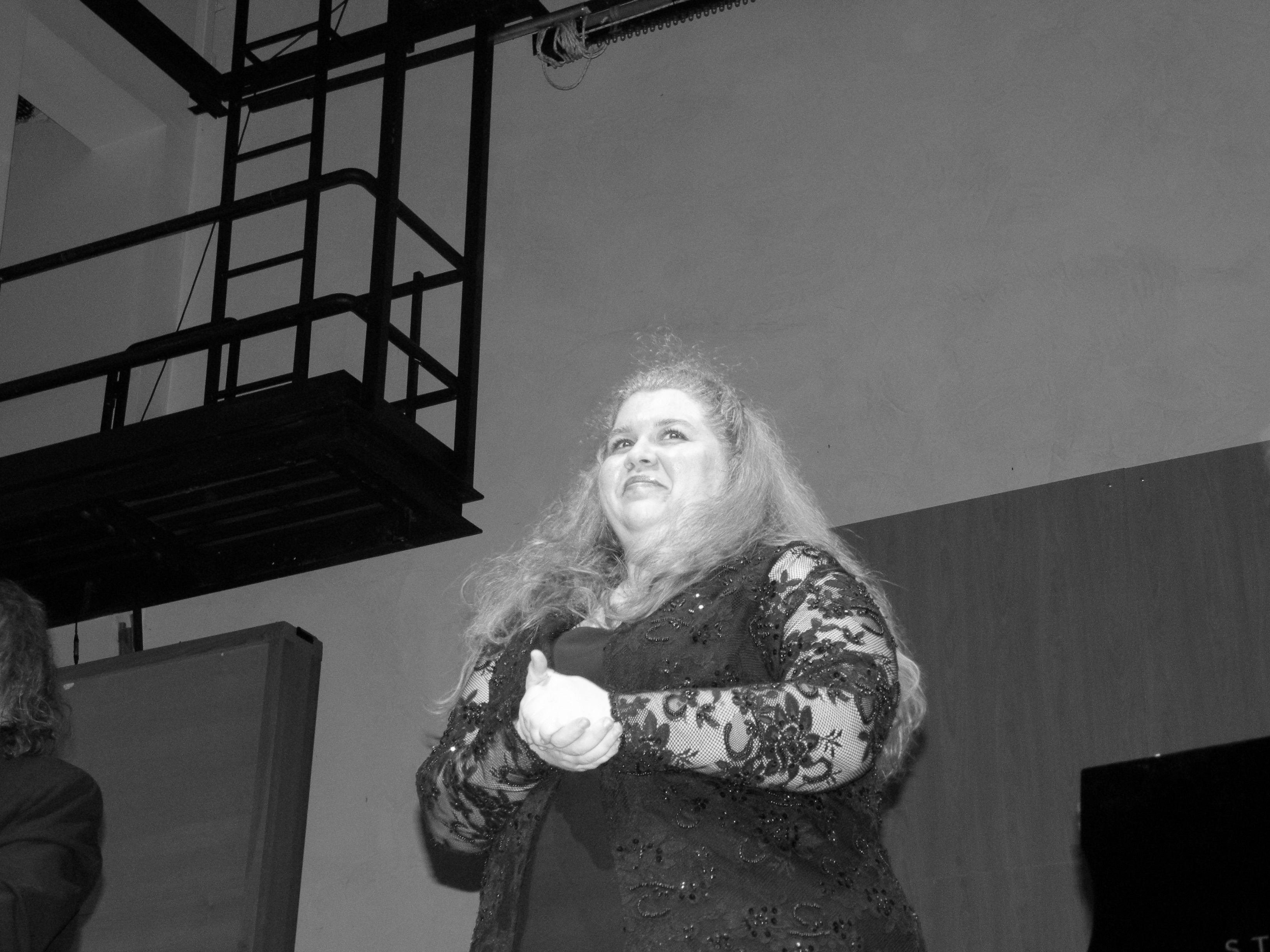 Plamena Mangova, bulgarian pianist, on 29 january 2009, during La Folle Journée in Nantes.